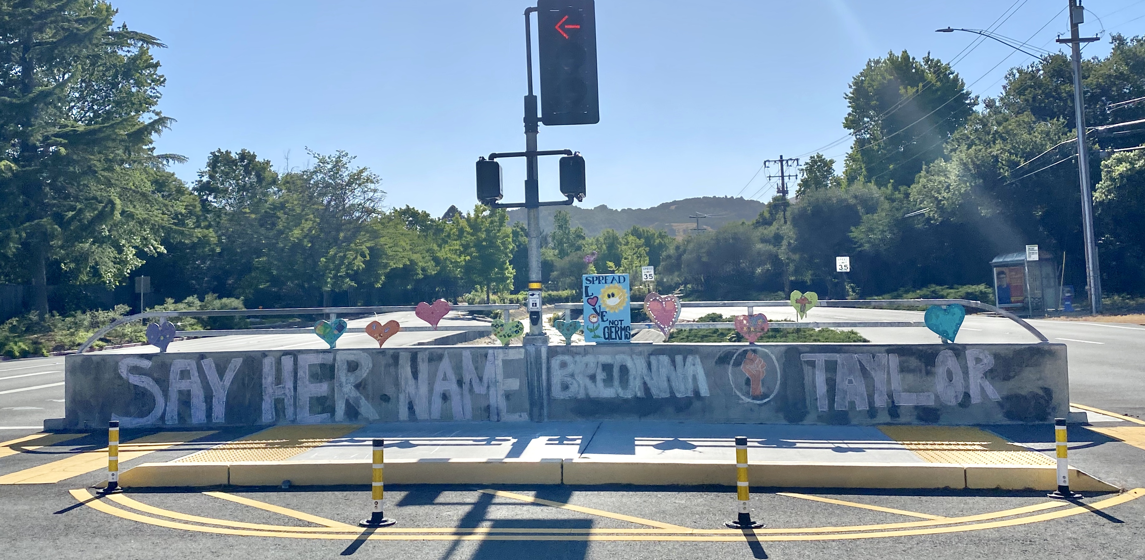 BLM Breonna Taylor mural in Terra Linda, San Rafael, California on June 7, 2020